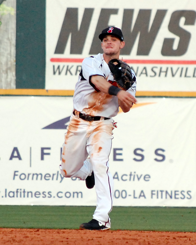 Scooter Gennett, a second baseman for the minor league Nashville Sounds, throws a ball in a game at Herschel Greer Stadium on April 20, 2013